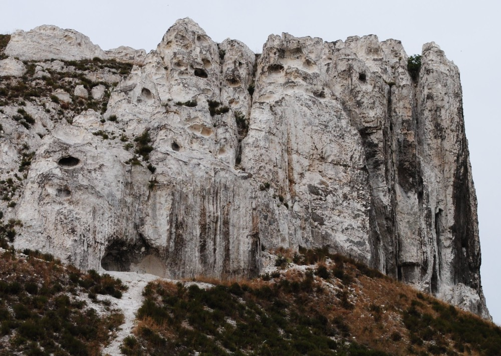 Sedimentary rocks of Upper Cretaceous age, Belokuzminovka village, Donetsk oblast, Ukraine.